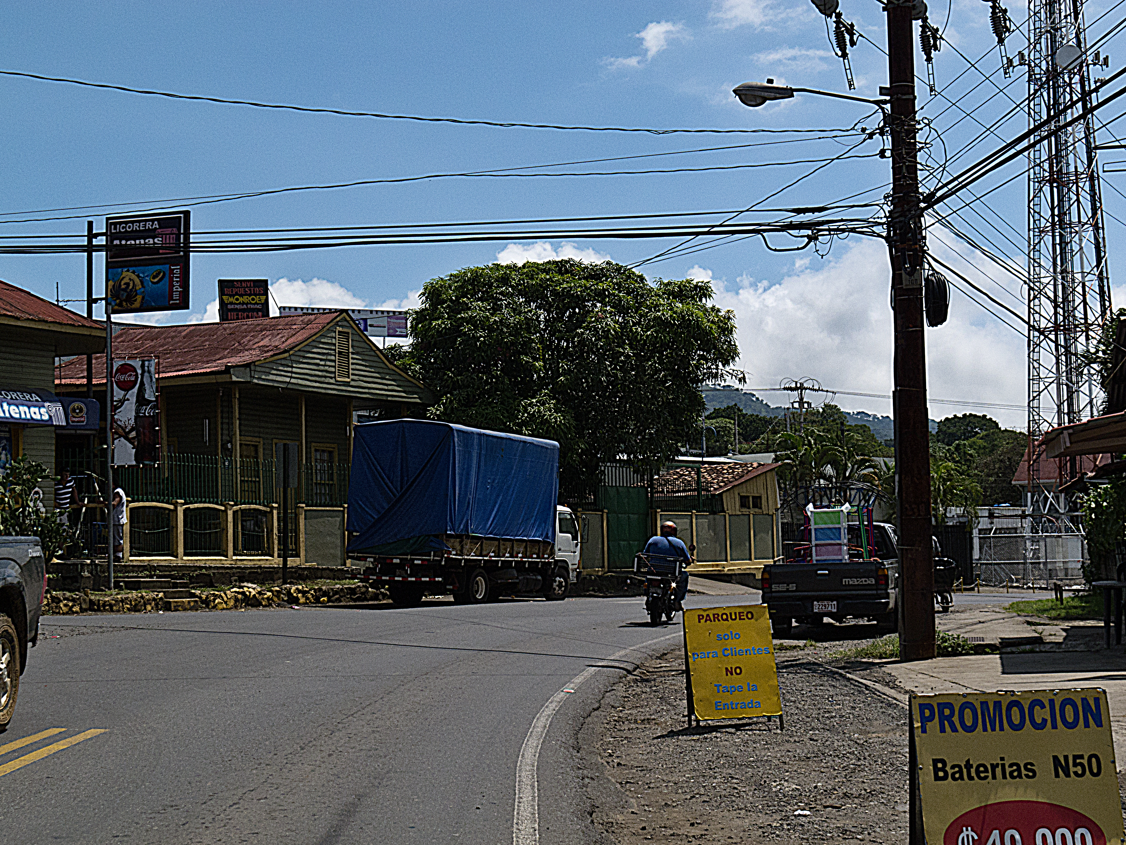 Main street (CR Route 3) through Atenas, Alajuela, Costa Rica